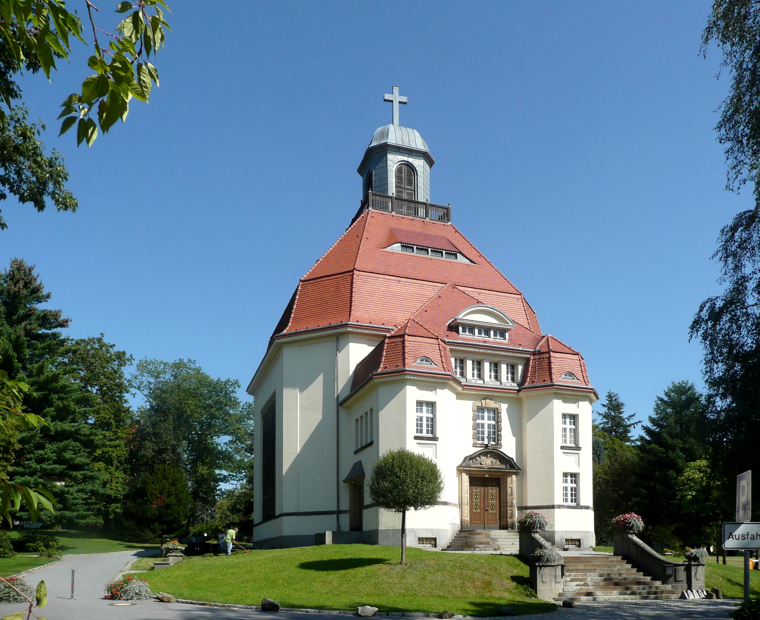 The hospital-church (built 1912/13) in Arnsdorf in Saxony.